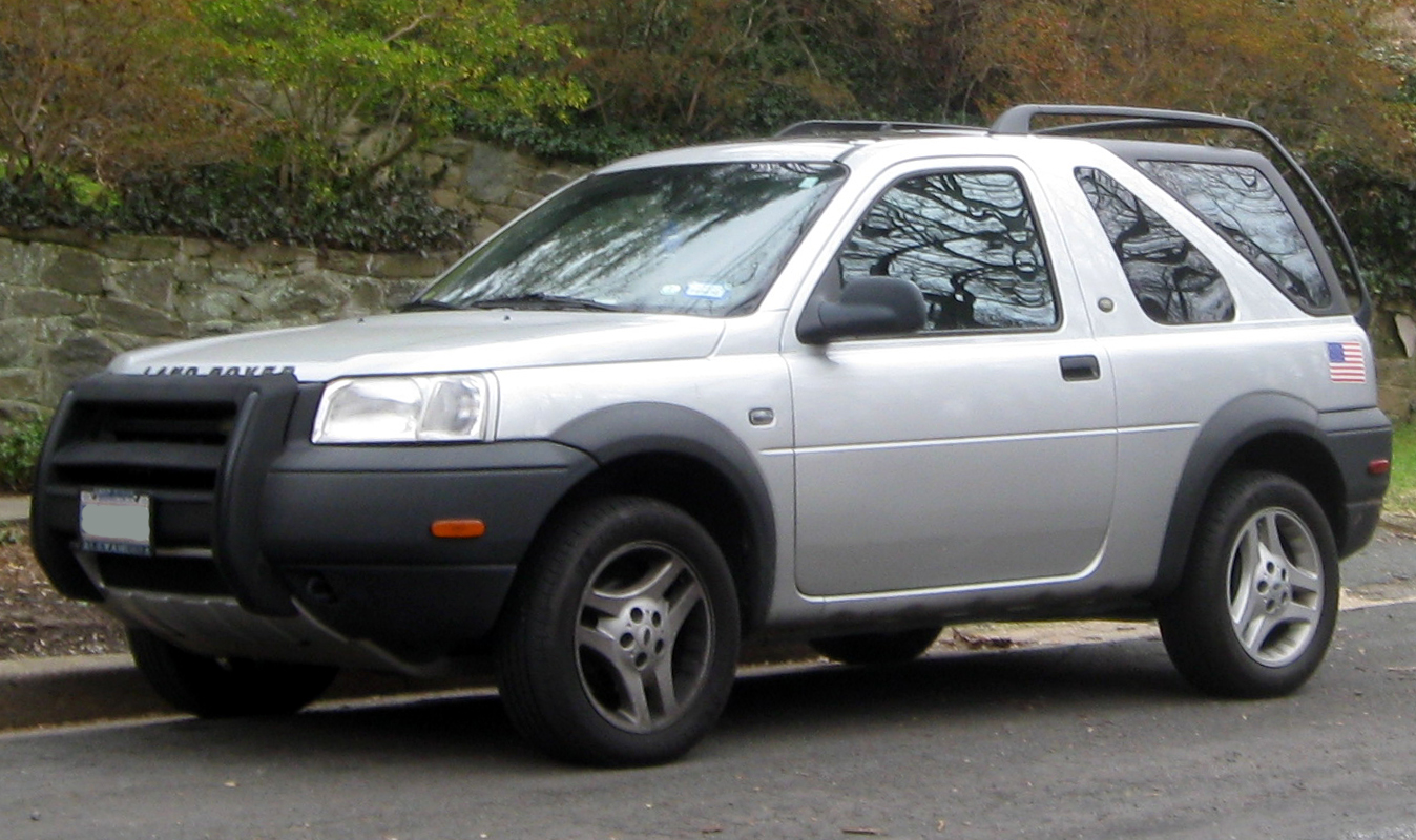 2002-2003 Land Rover Freelander photographed in Washington, D.C., USA.